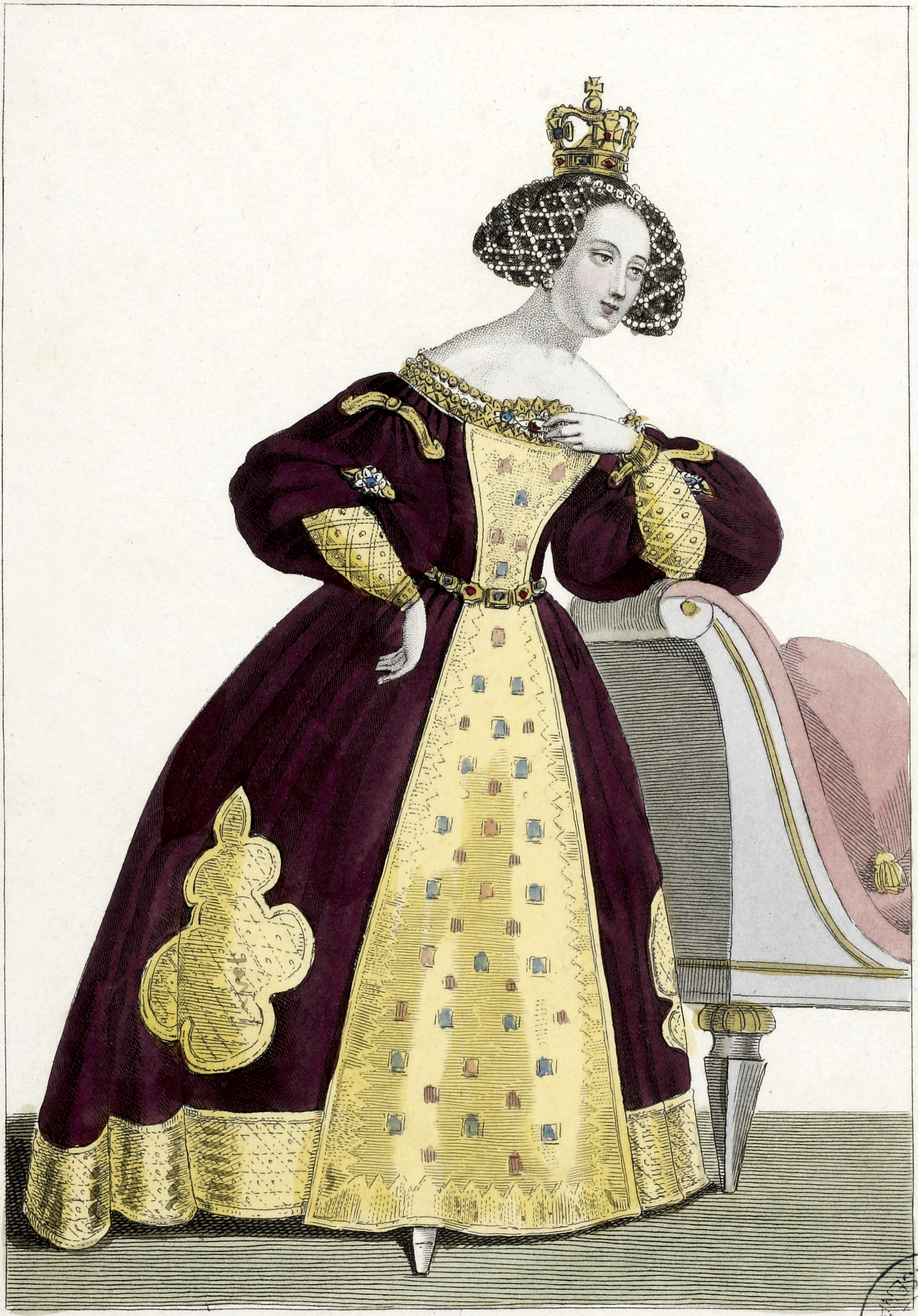 Mademoiselle George (1787–1867) as l'Impératrice in l'Impératrice et la Juive.